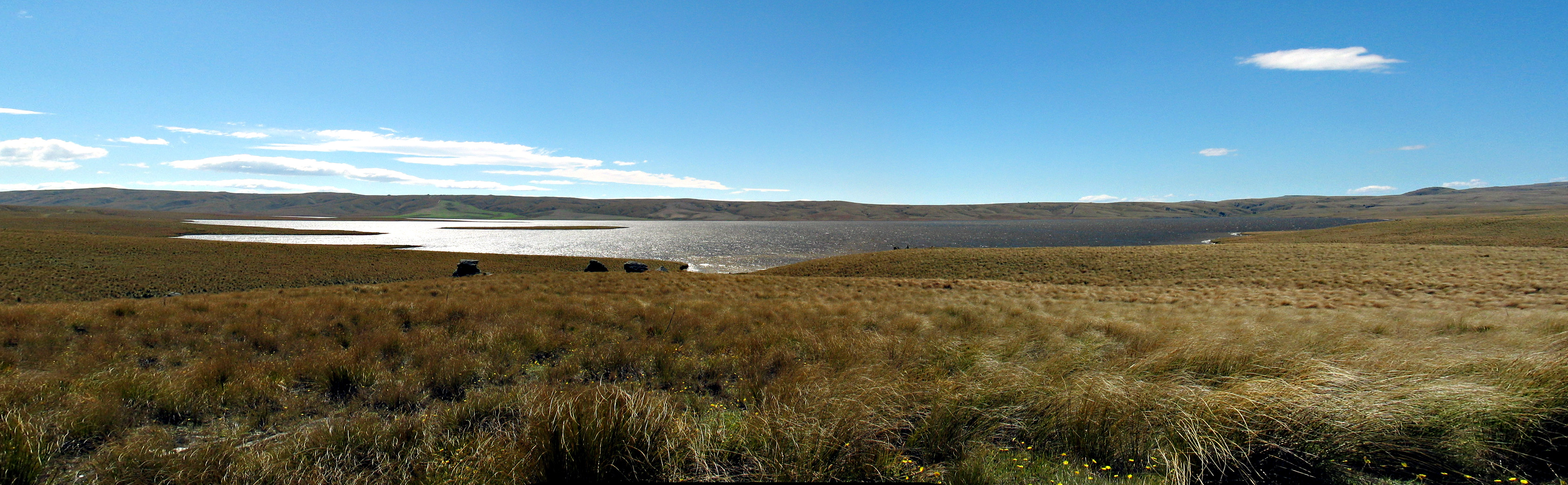 This is a panorama overlooking the former Great Moss Swamp, in New Zealand. It is situated roughly half-way between Clark's Junction and Paerau, and behind the Rock and Pillars from Middlemarch (i.e., in the middle of nowhere). It is near to the former gold mining route of the Old Dunstan Road. S 45° 33.312' E 169° 56.428' (WGS '84; within 100 m).